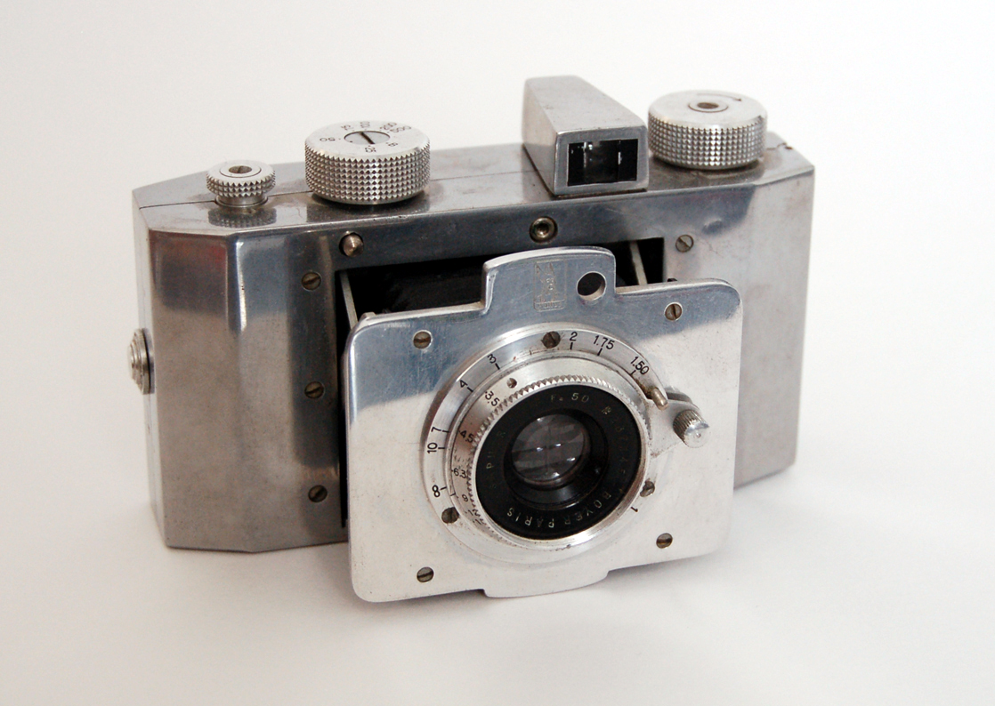 This folding strut camera is made of polished aluminum and was manufactured in Paris, France around 1945. The Gallus Derby is the French version of the Foth Derby, which was manufactured several years earlier in Germany.